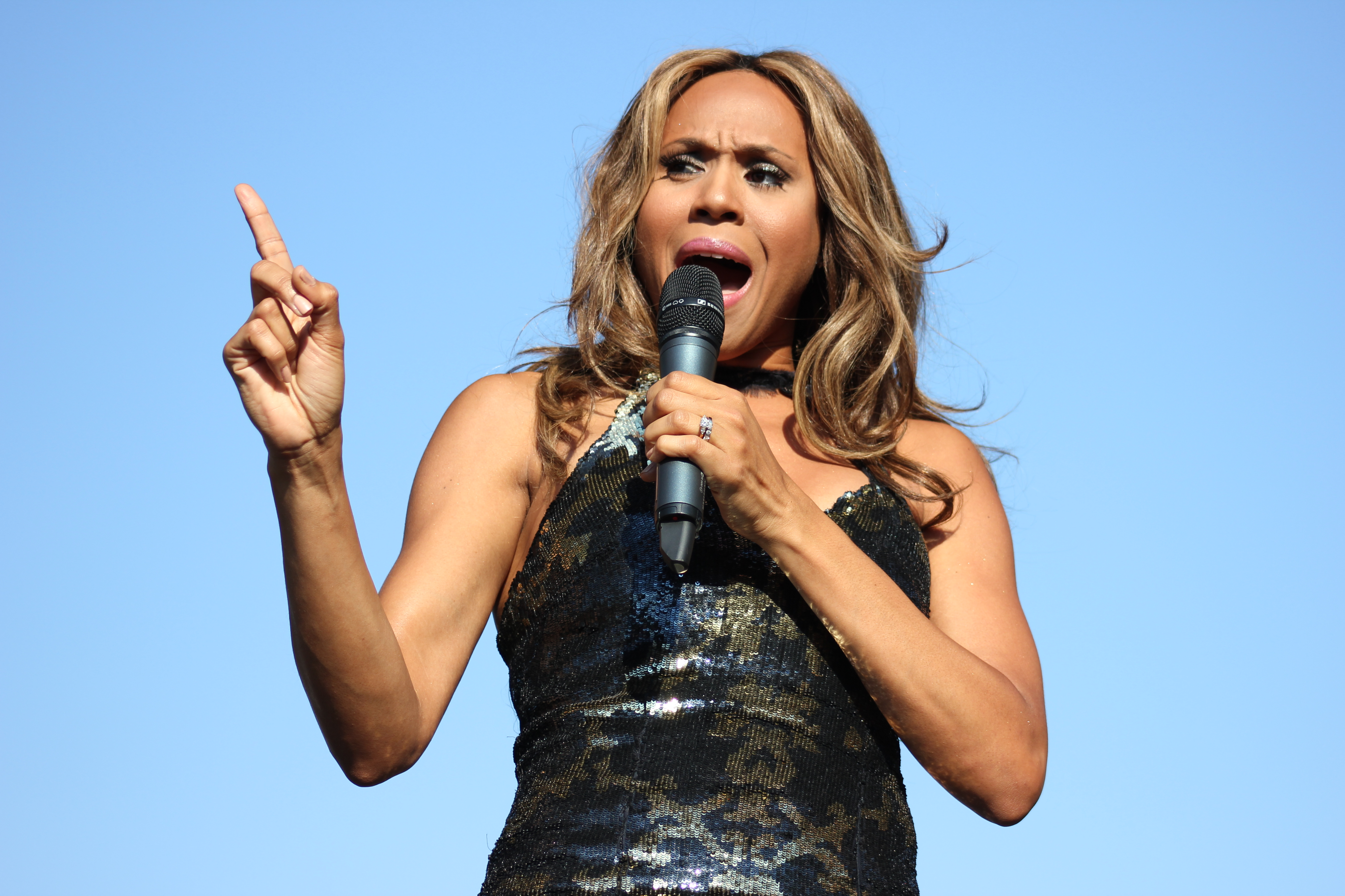 DEBORAH COX performance during 37th Capital Pride Festival at the Main Stage on Pennyslvania Avenue and 3rd Street, NW, Washington DC on Sunday afternoon, 10 June 2012 by Elvert Barnes Photography Visit DEBORAH COX website at Visit Capital Pride website at Visit Elvert Barnes 37th Capital Pride 2012 / Washington DC docu-project at